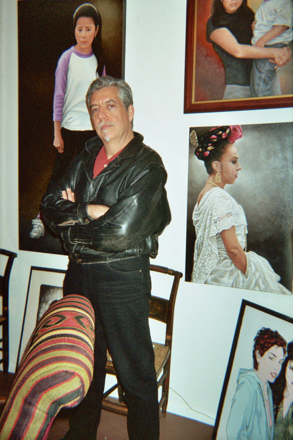 I took this picture in December of 2005 at an exhibition at Carlotta's Passion, a gallery in Eagle Rock, California. I release it to the public domain.